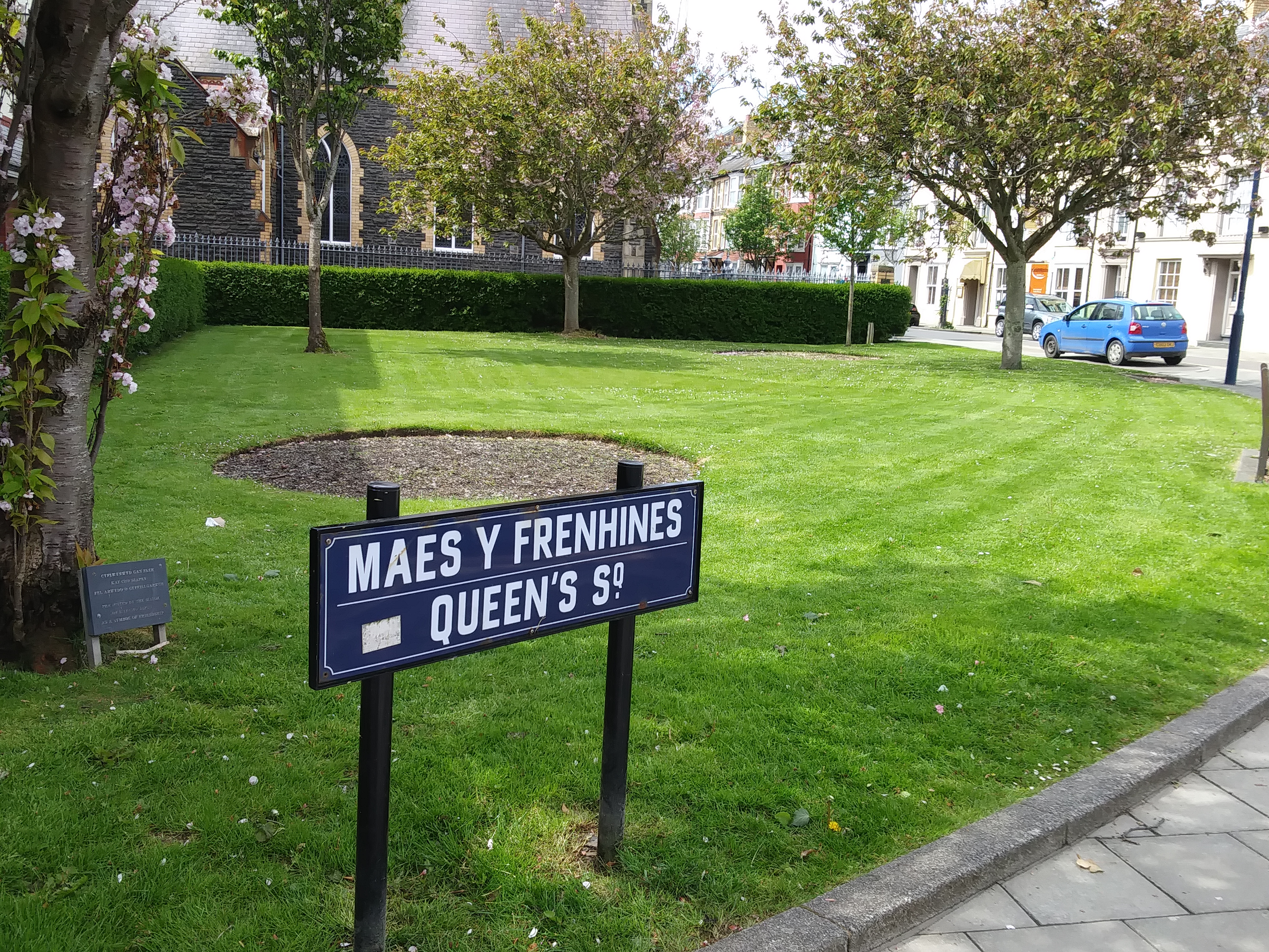 Queen's Sq Aberystwyth roadsign